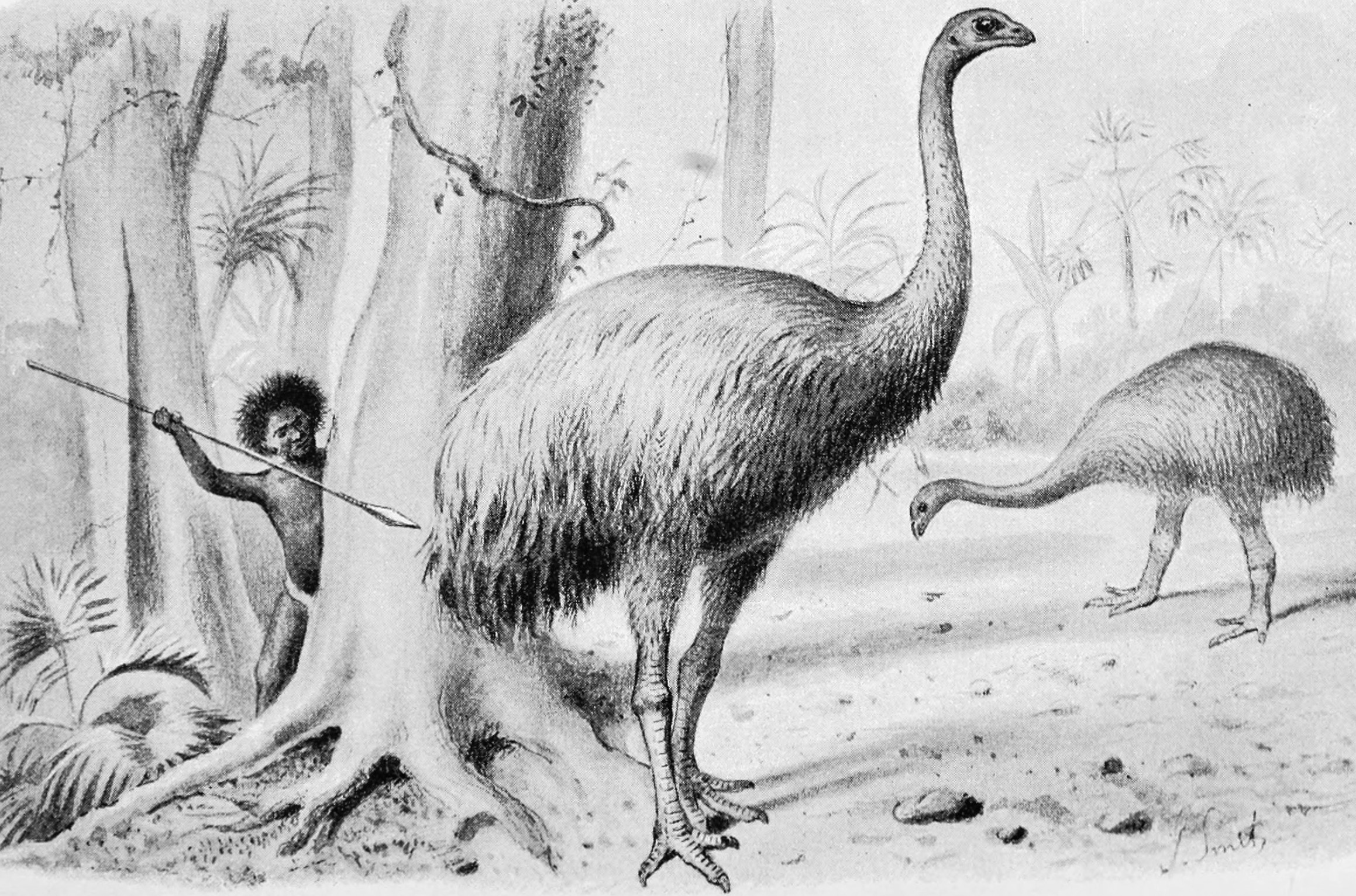 "caption:Moa birds. Dinornis giganteus, Height 12 feet. D. elephantopus (current name Pachyornis elephantopus), a smaller species.". Hunting Moa birds from Extinct Monsters: A popular account of some of the larger forms of ancient animal life 1892.